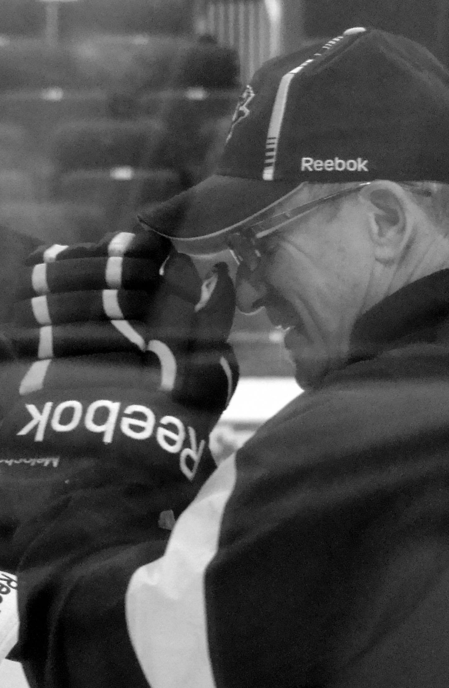 Pittsburgh Penguins goaltending coach Gilles Meloche on the ice during the Pens morning skate December 3, 2011 at RBC Center in Raleigh, NC.